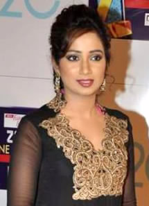 Shreya Ghoshal at Zee Cine Awards 2013